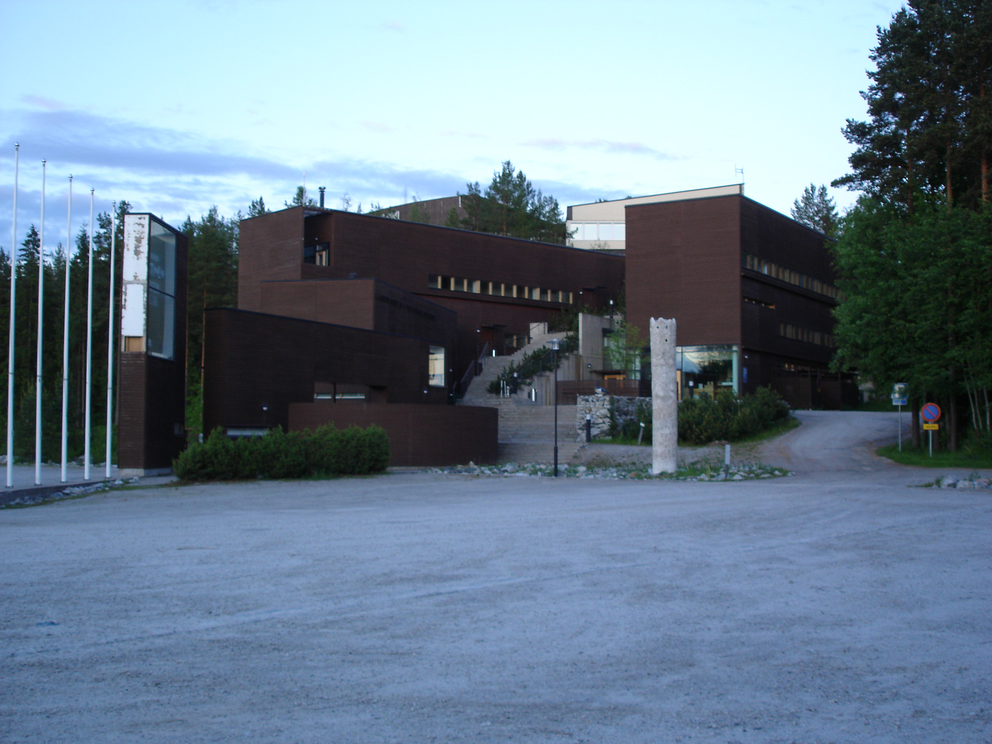 Folk Arts Centre in Kaustinen, Finland